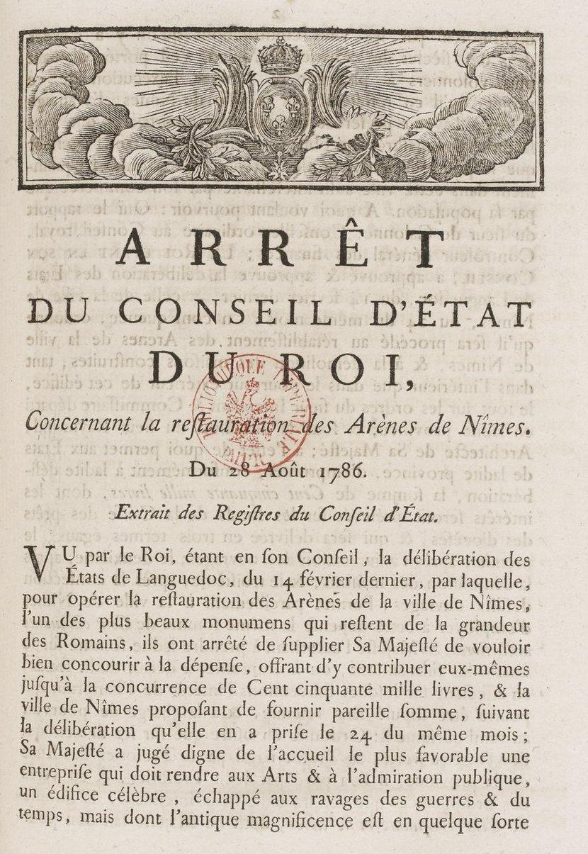 First page of an administrative document concerning the Arenas of Nimes